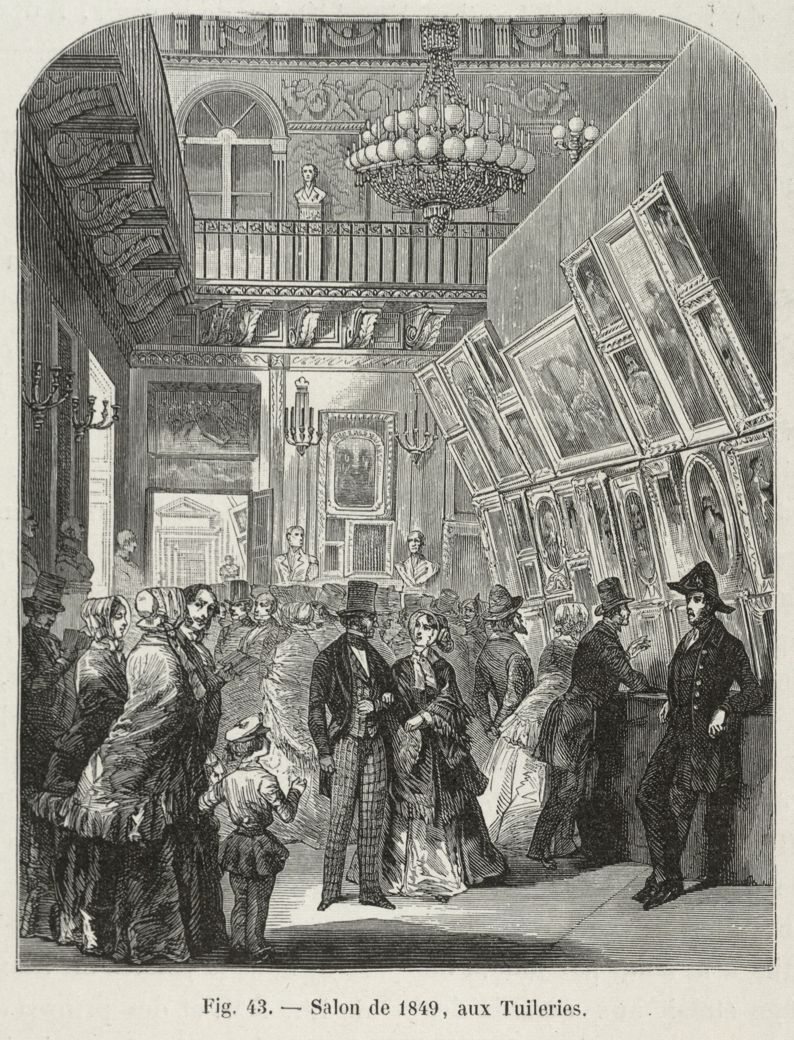 In 1849, the Tuileries Palace was used to display the masterpieces of various schools of art, which were originally housed and organized by the Beaux-Arts.